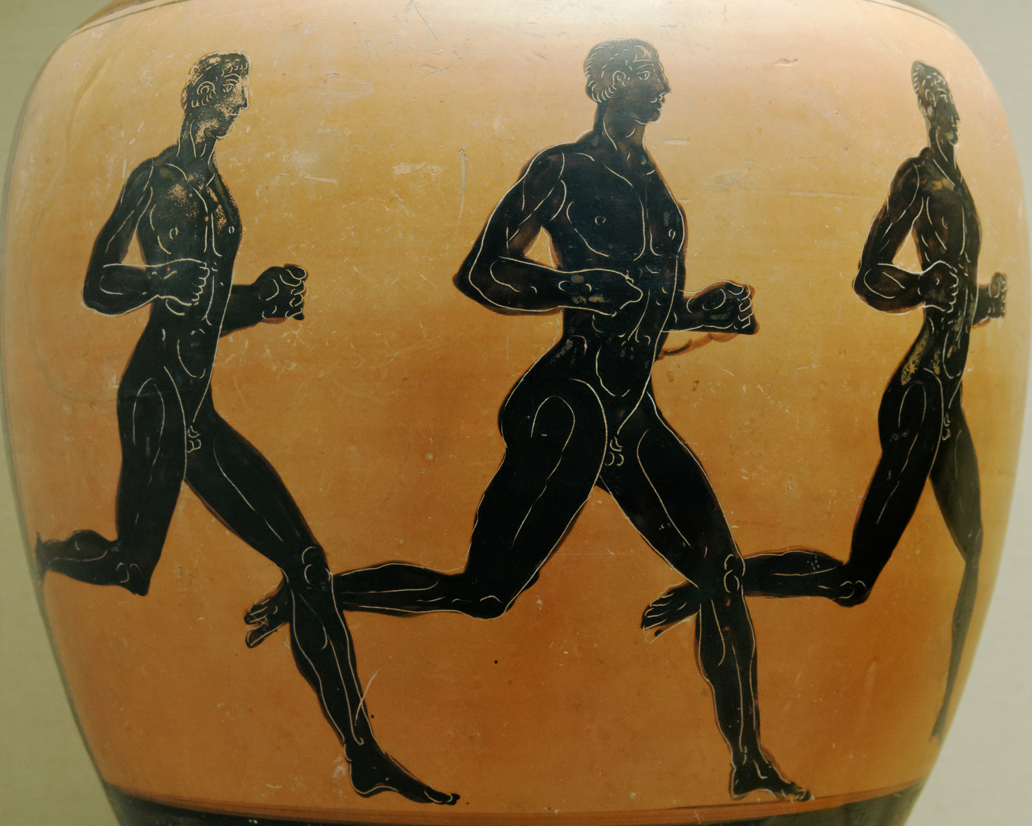 Three runners. Side B of an Attic black-figured Panathenaic prize amphora.